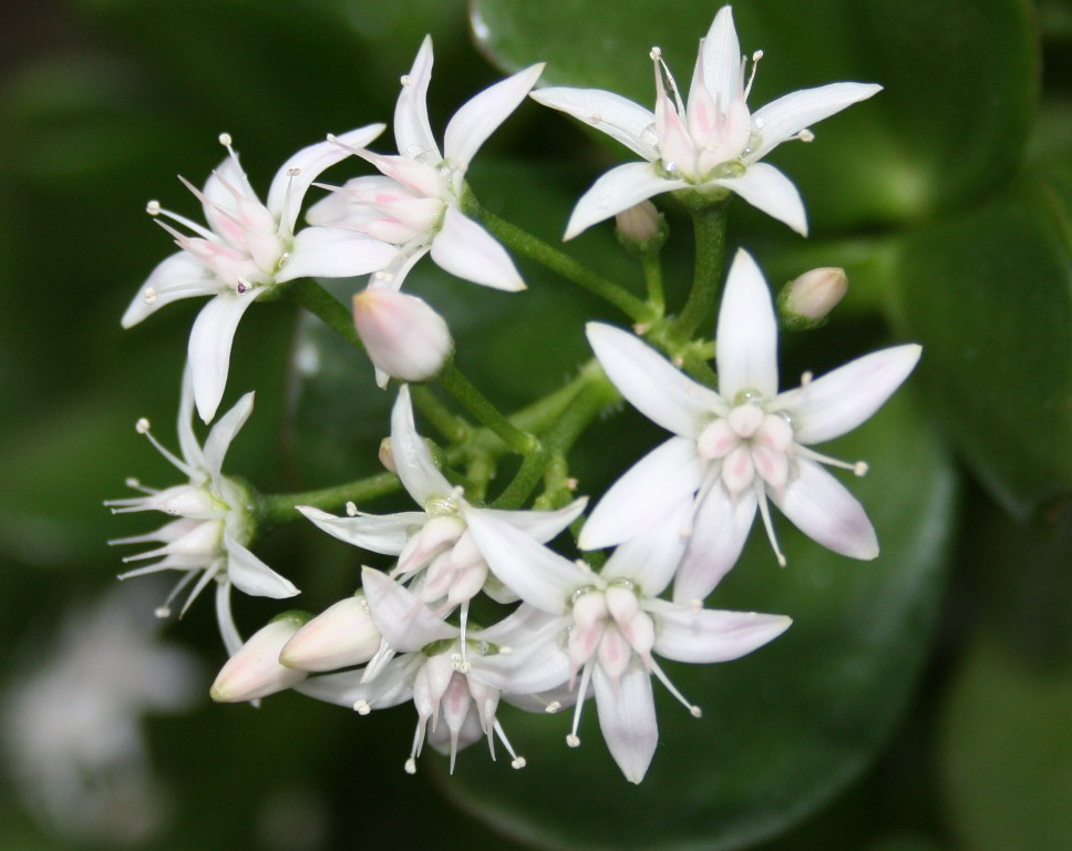 Carassula ovata - Flower